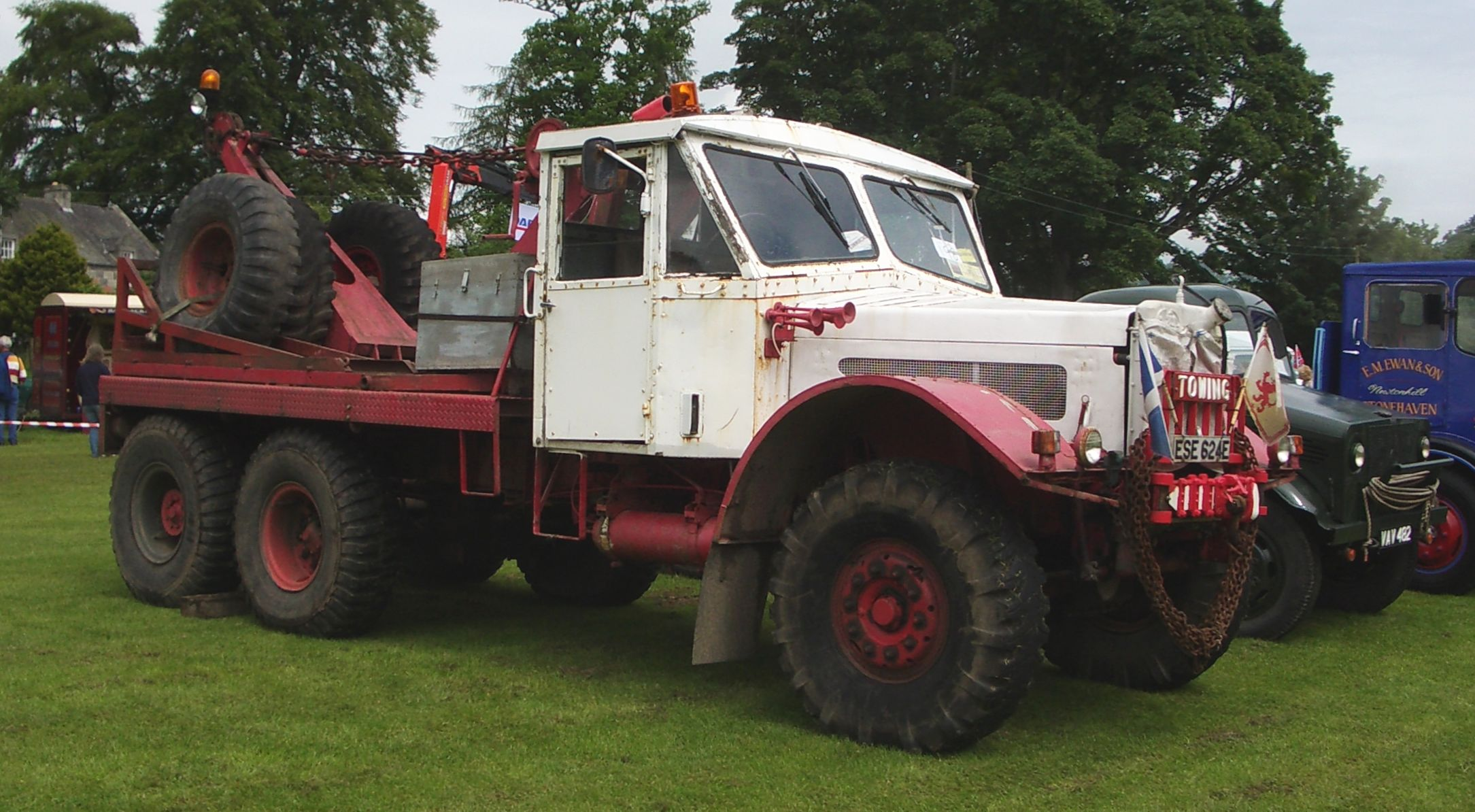 Albion recovery truck (for Albion Motors article), photographed at Castle Fraser, Scotland.